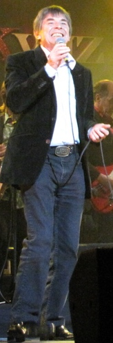 Australian singer John Paul Young